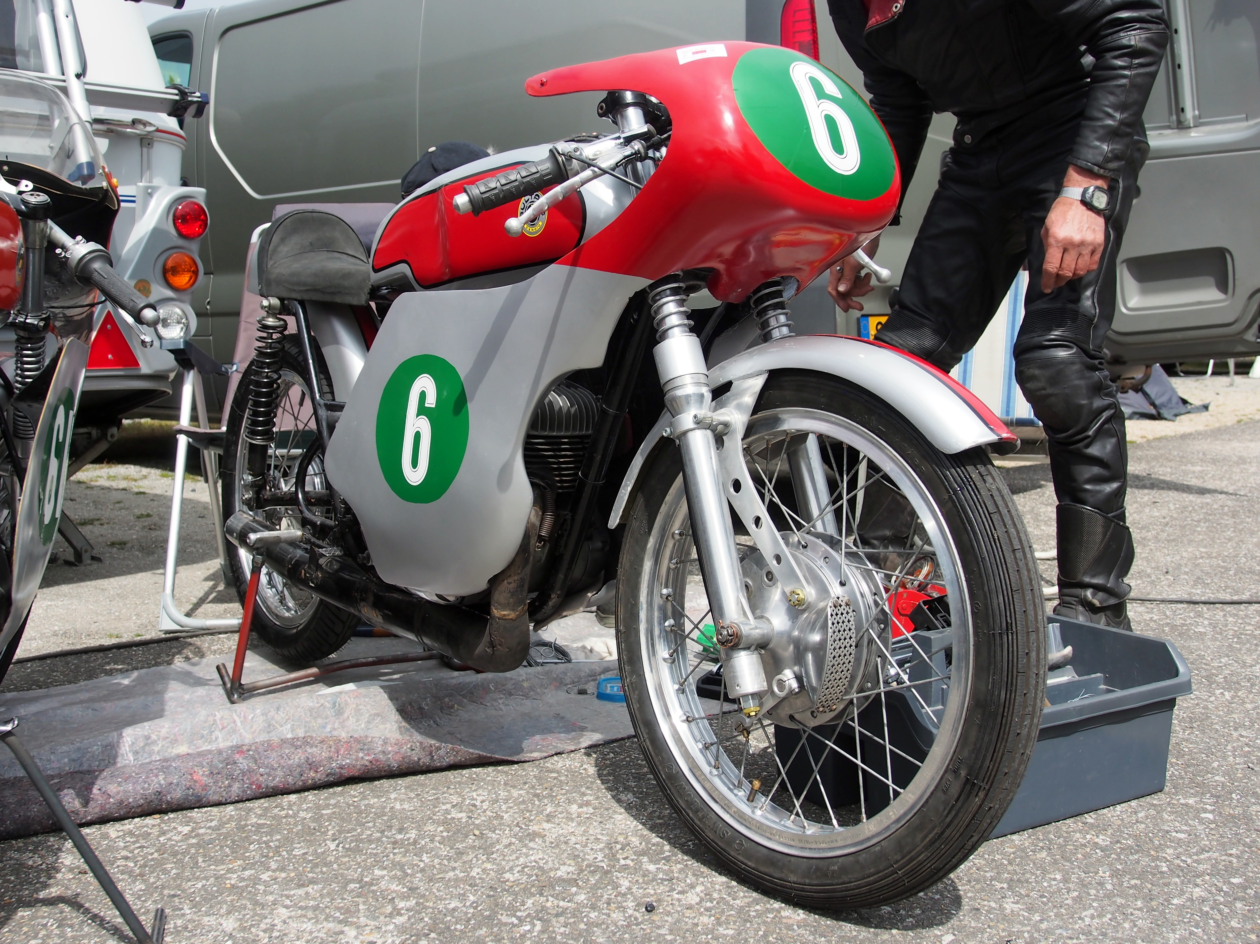 Photographed at Rockanje, The Netherlands.